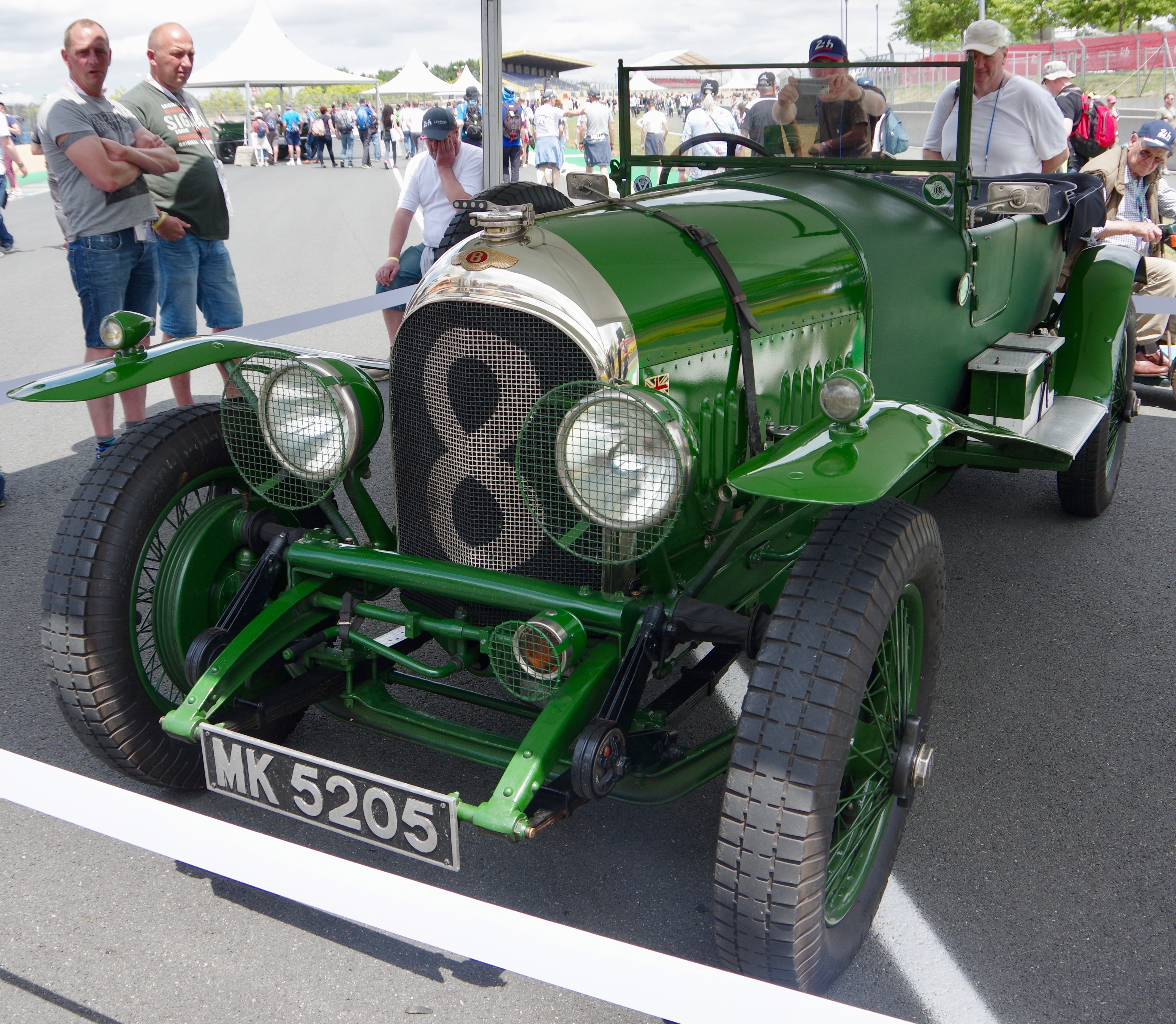 This car crashed at Arnage whilst in the lead of the 1926 Le Mans and despite being dug out of the soft earth bank it later retired with "Valve Stretch".